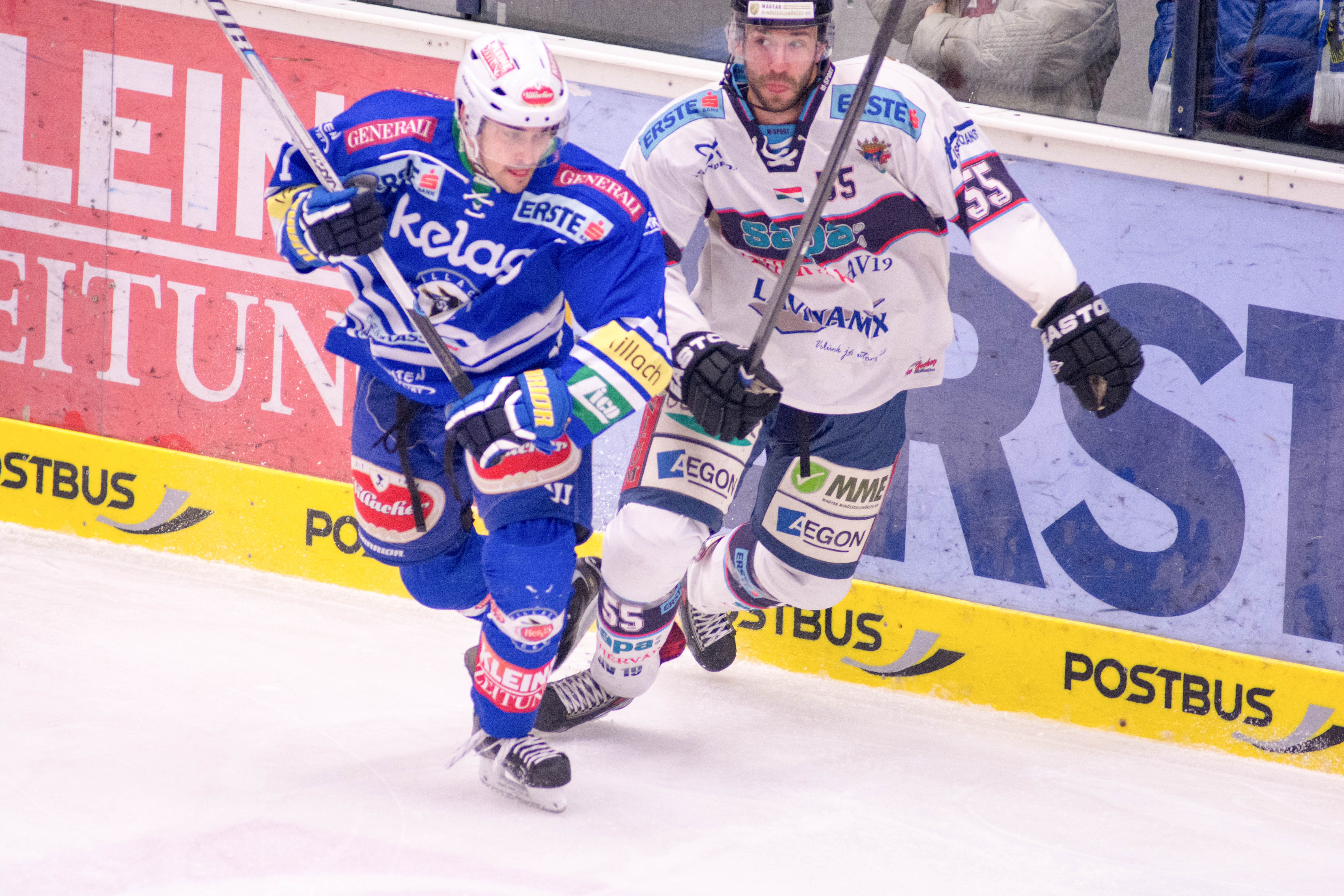 17.12.2013,Stadthalle Villach, AUT, EBEL, 54. Runde, EC VSV vs. SAPA Fehervar AV19, im Bild // frostworx Pictures © 2013, PhotoCredit: frostworx / Alex Micheu